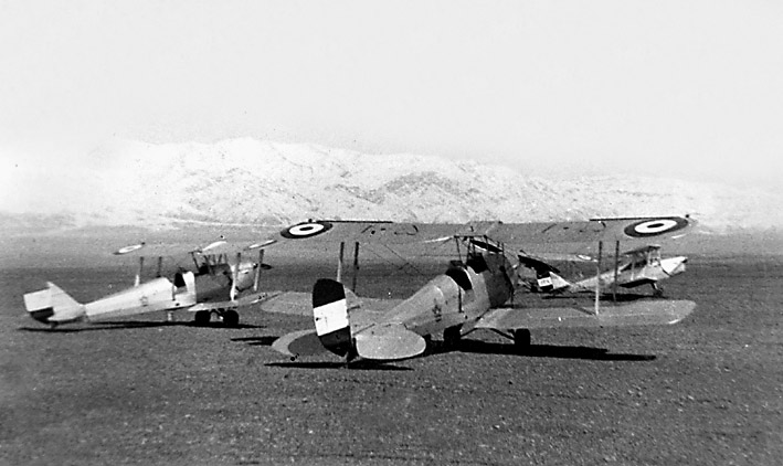 Two Tiger Moths are preparing to take off. Iran was host for almost 100 trainers of this type that were acquired by the IIAF.